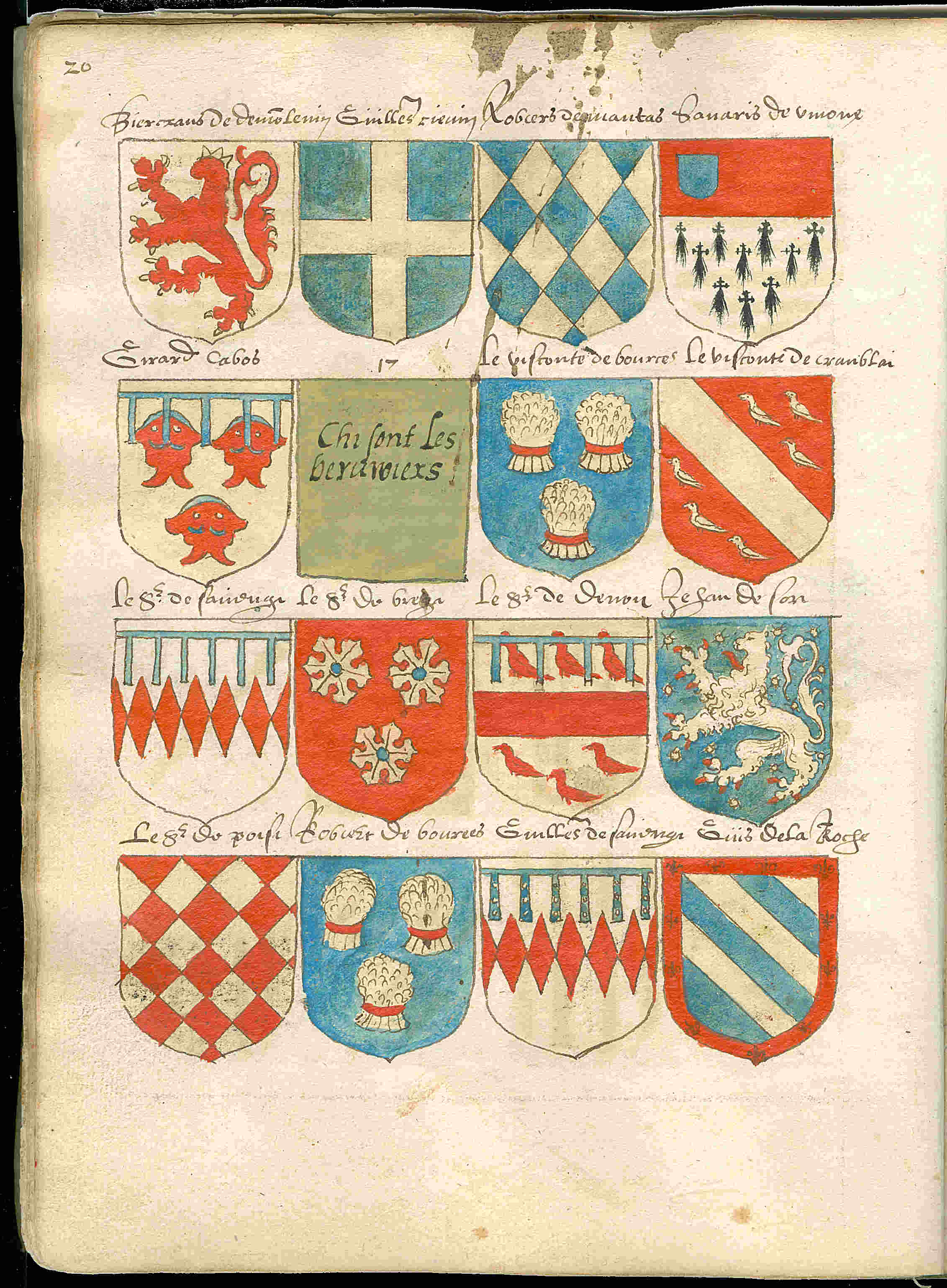 Page 20 from a copy of the Beyeren armorial / Wapenboek Beyeren from ca. 1600. The original Beyeren armorial from 1405 can be viewed at the website of the KB